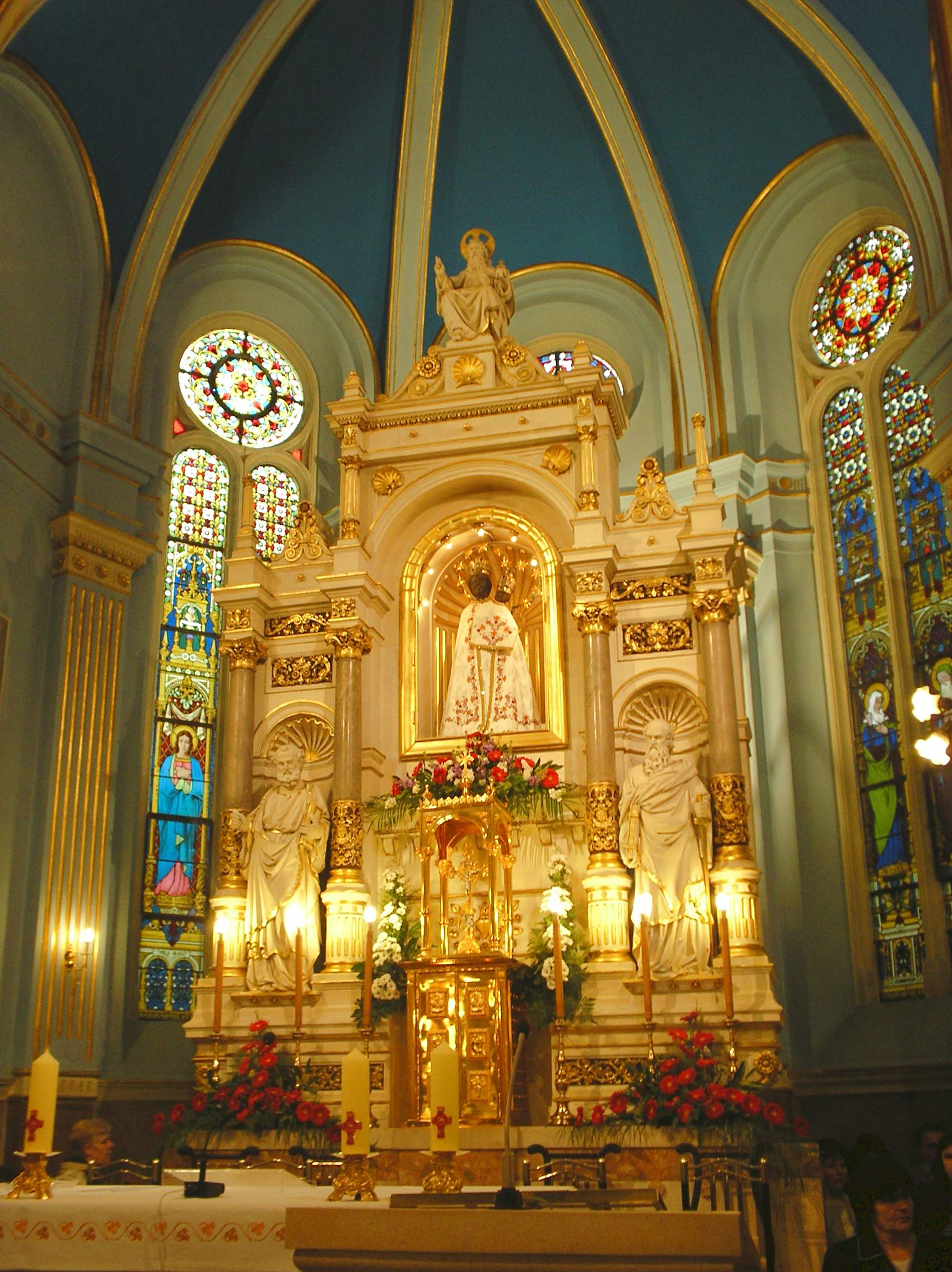 Basilica of Blessed Virgin Mary, Marija Bistrica, Croatia